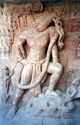 One of the many excellences of this relief is its appealing combination of power and tenderness. Varaha's massive body subdues the naga without crushing it, and uplifts the Earth goddess who affectionately clings to his muzzle. The figure on a lotus pedestal, at the left side of the photo beside Varaha's leg, holds the stem of the lotus that appears above Varaha's head. Bhu Devi also is supported by a lotus plant.